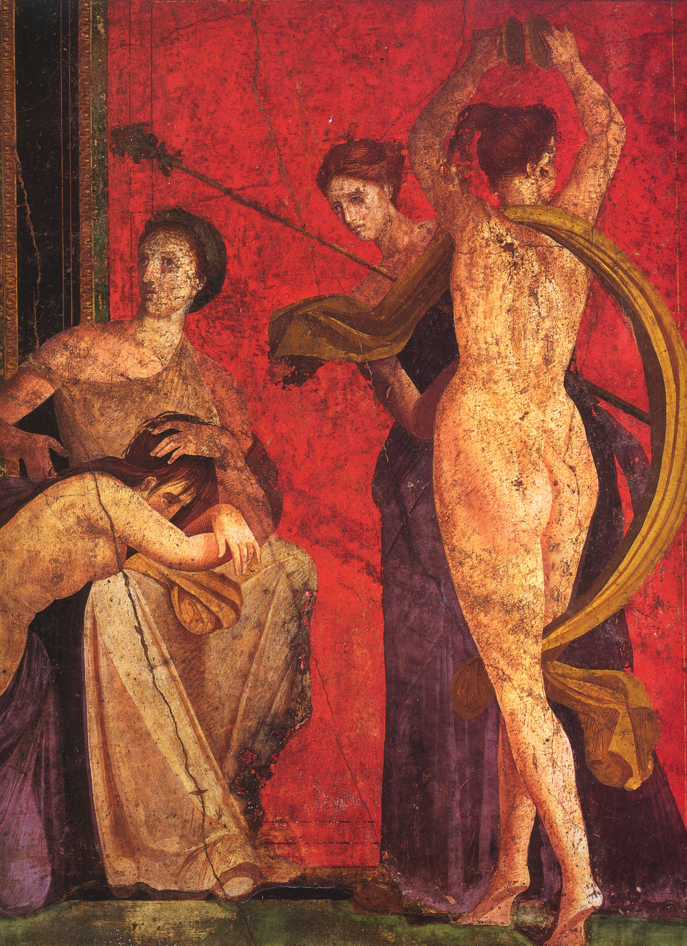 Fresco from the Sala di Grande Dipinto, Scene VIII in the Villa de Misteri (Pompeii).